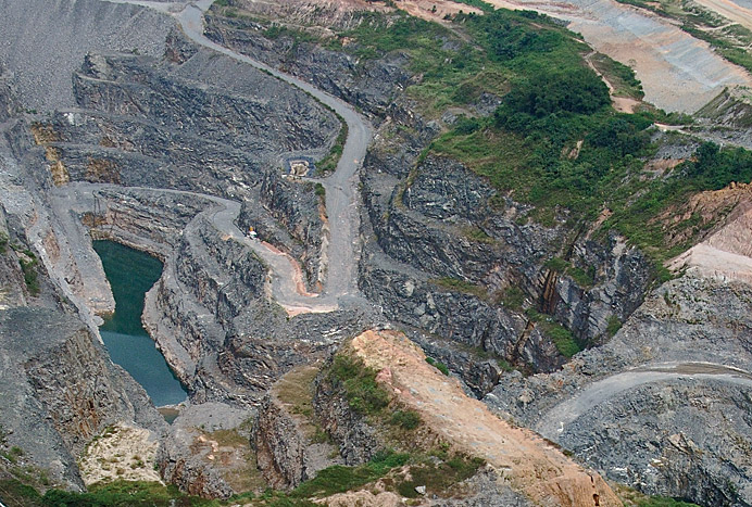 The Damang Mine in Ghana